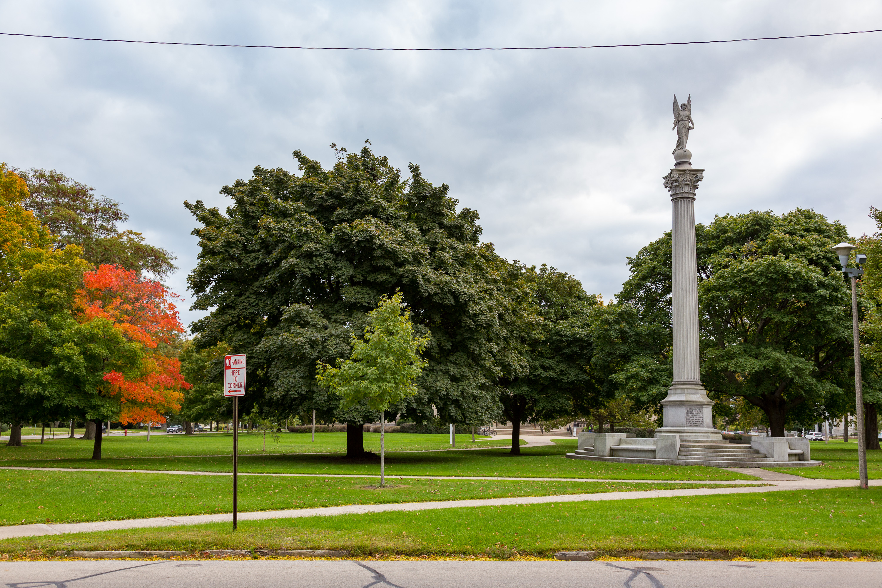 Soldiers and Sailors Monument in Library Park, Kenosha, WI. Daniel Burnham, 1900.